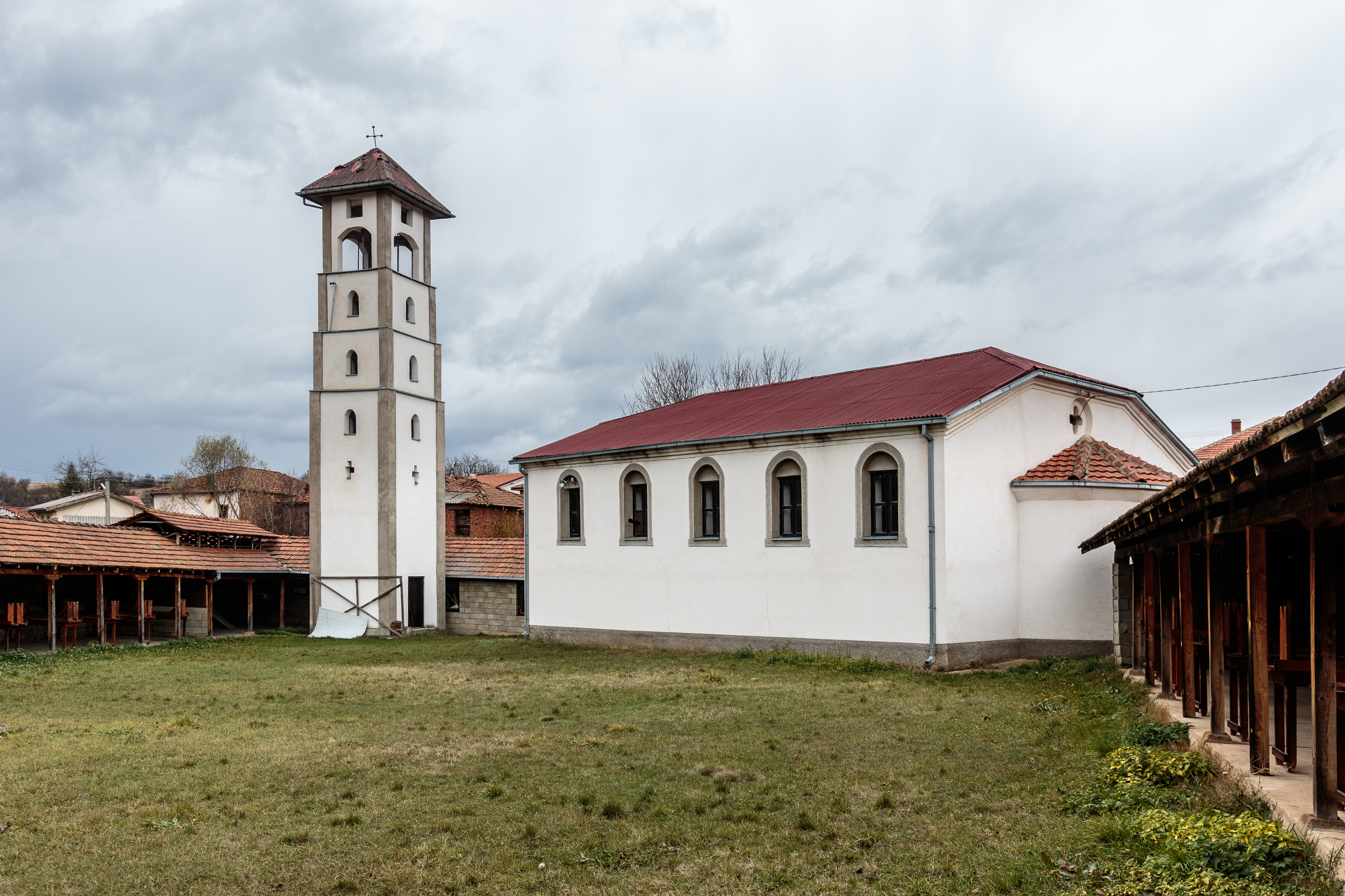 St. John the Apostle Church in the village of Čiflik, Maleševija, Macedonia